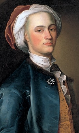 Richard Peckham (1717-1742)